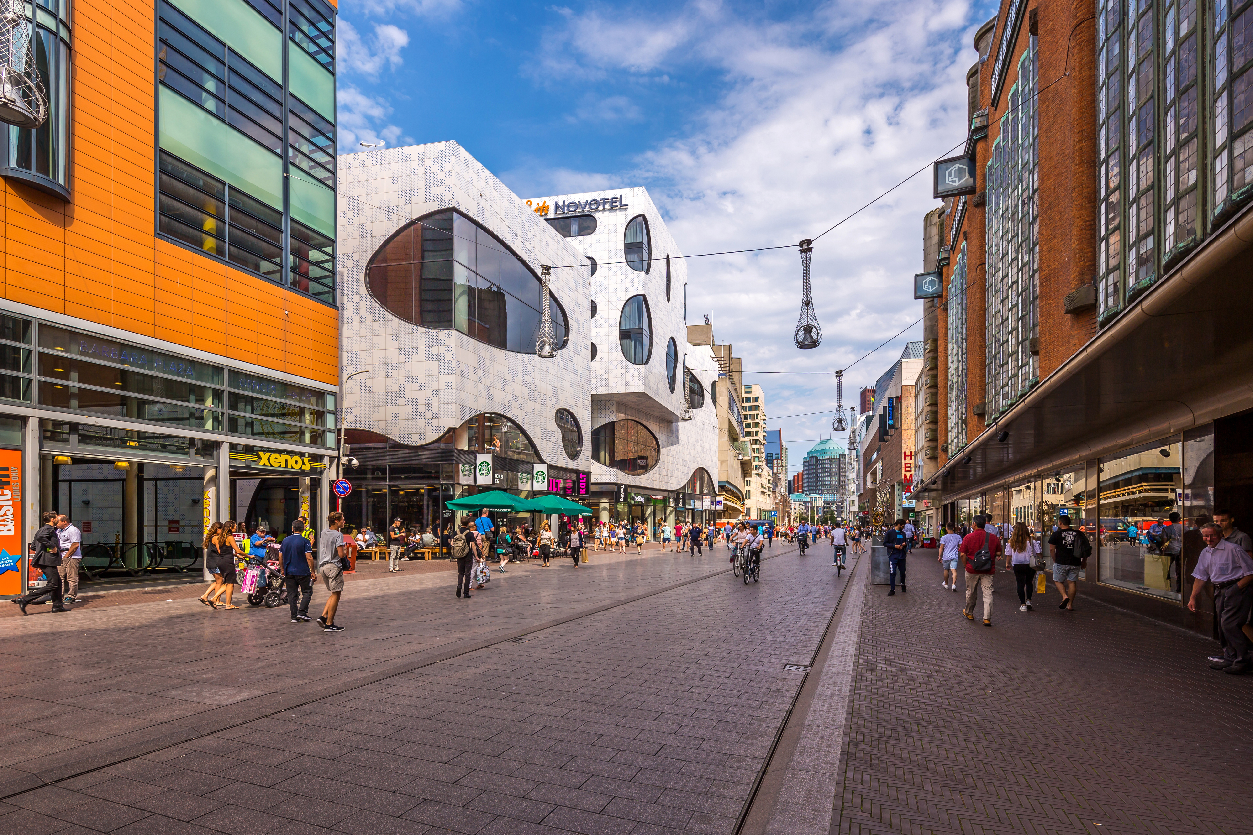 Grote Marktstraat (main street), The Hague (08/2016) - Human picture: (1 body / 1 lens / 1 human = 1 picture ) 0% AI ... ;- ) ... Following vandalization (Rotterdam) of my work, final stop of this series on European cities. My work not being respected, I definitively stop my publications in Wikimedia Commons (including definition and quality updates). Final publication in Wikimedia Commons